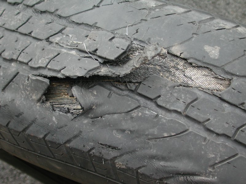 You can see the two bias steel ply here.